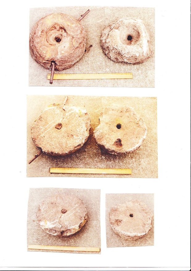 Two complete beehive quern stones tops of Roman date. The stones are domed with a fluted upper surface and central perforations. Both stones appear to have side perforations though these are extremely worn on one. Unmalted grain would have been poured into the vertical central perforation while the stone was turned by a handle projecting from the side perforations. The upper stone was held in place over the lower stone by a bridge or rynd of wood or metal - frequently iron - which is likely to account for the iron plug in one of these examples. Quern stones have been used since the Neolithic period to mill grain for flour and other food stuff meaning that dating of such objects is difficult as they were durable objects with a long life span. The examples however are most likely Roman in date due to the flat grinding surface.